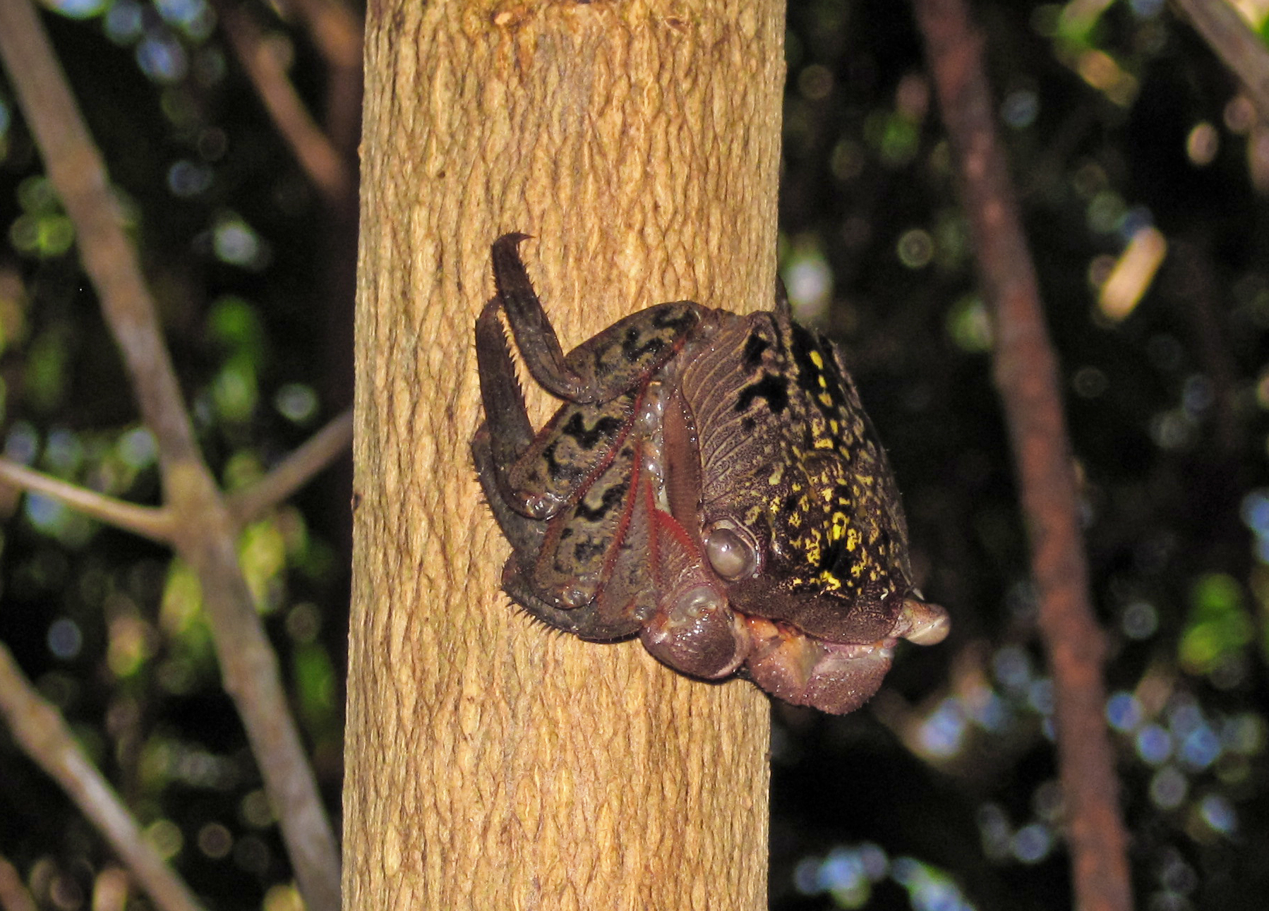 Aratus pisonii (Milne-Edwards, 1837) - mangrove tree crab in Florida, USA (January 2016). The crustaceans are a large group of arthropods that inhabit marine, marginal marine, freshwater, and terrestrial habitats. The crustaceans include crabs, lobsters, shrimp, crayfish, barnacles, ostracods, and other organisms. The oldest fossil crustaceans are in the Cambrian. The group experienced a significant radiation in the oceans during the Mesozoic Marine Revolution. The mangrove tree crab shown above occupies mangrove swamp environments. It usually lives among red mangroves - Rhizophora mangle ( At low tide, the crabs are near or on the ground. During high tide, they ascend tree trunks, often to relatively high levels. Mangrove tree crabs are omnivorous - they are principally herbivores, feeding on mangrove foliage, but are also detritovores, scavengers, and predators on small invertebrates and some protists. Classification: Animalia, Arthropoda, Crustacea, Malacostraca, Decapoda, Brachyura, Sesarmidae Locality: tree along boardwalk to Mangrove Overlook, Ding Darling National Wildlife Refuge, Sanibel Island, southwestern Florida, USA More info. at: and